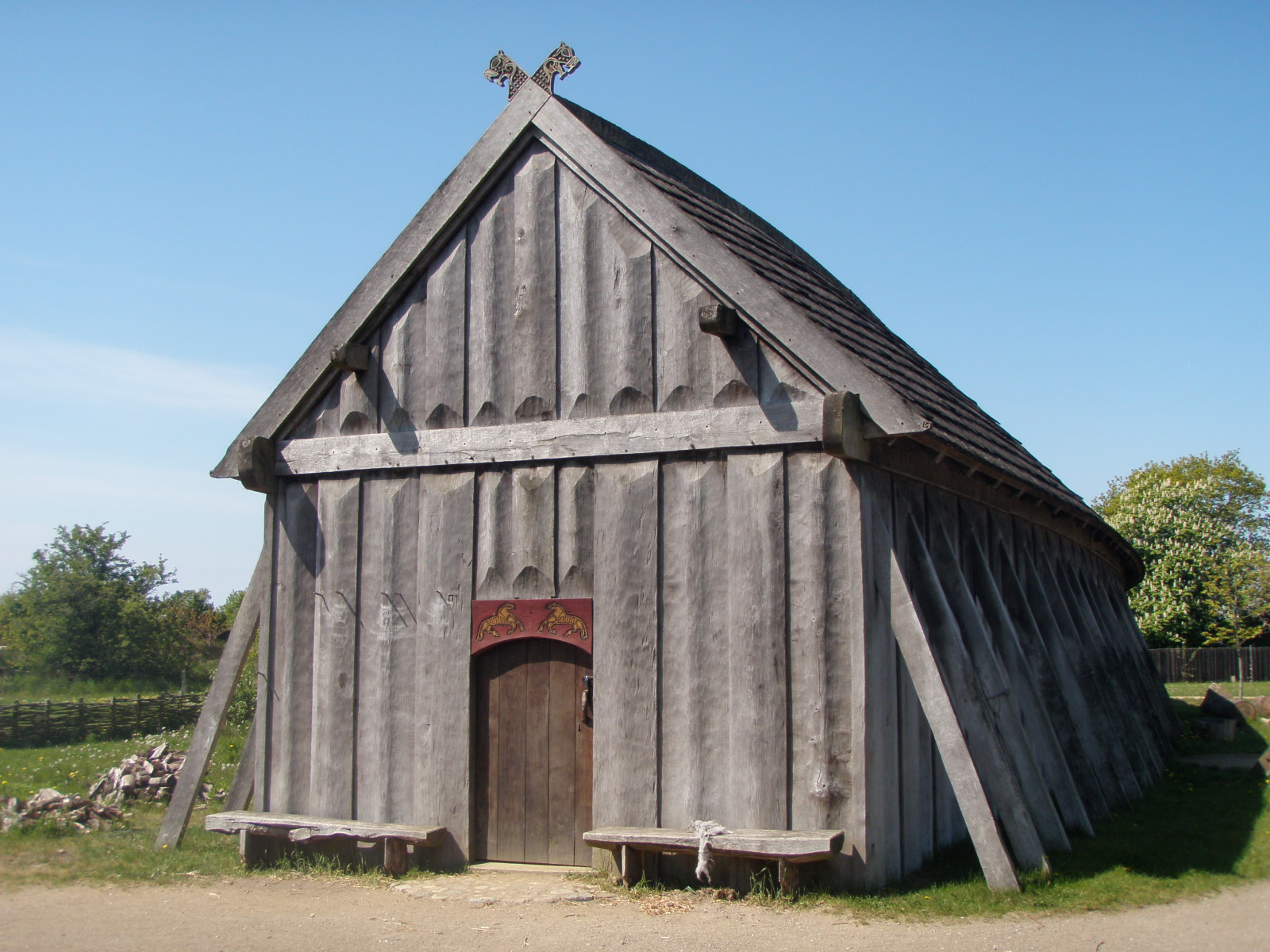 Ribe Viking Centre tries to reconstruct the city of Ribe's oldest history of buildings and the like from the city's oldest three-four first centuries. In the 1300 years old city came during the Viking Age many seasonal craftsmen and merchants from nearby and distant, when it was common to live in tents, although solid buildings also existed. However, there was a fixed place of tent city grew each year. During the late Viking Age, the city became increasingly built permanent and Medieval Ribe occurred.